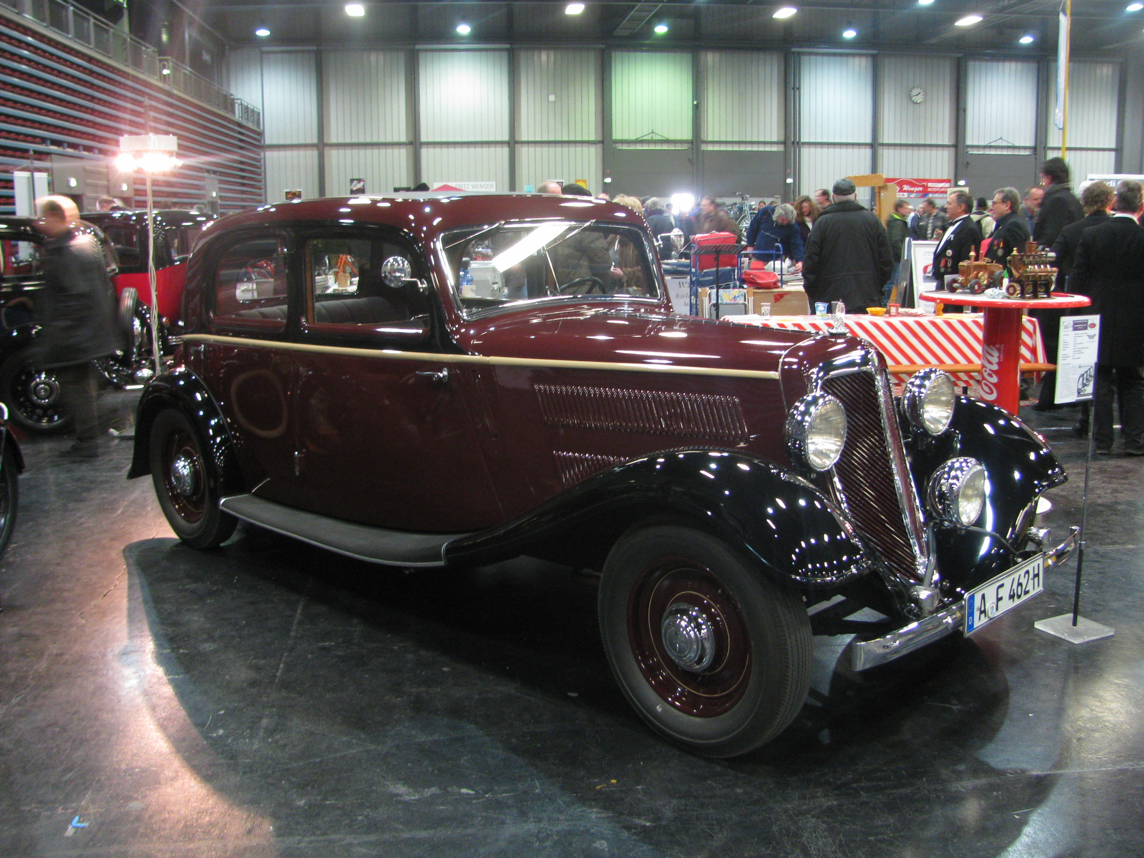 Wanderer - Auto Union W21 from 1934. 6-cyliner engine, displacement 1 681 cm³, output 35 hp at 3500 1/min. Top speed 90 km/h. 4 651 units produced. MotoTechnica Augsburg 2012.